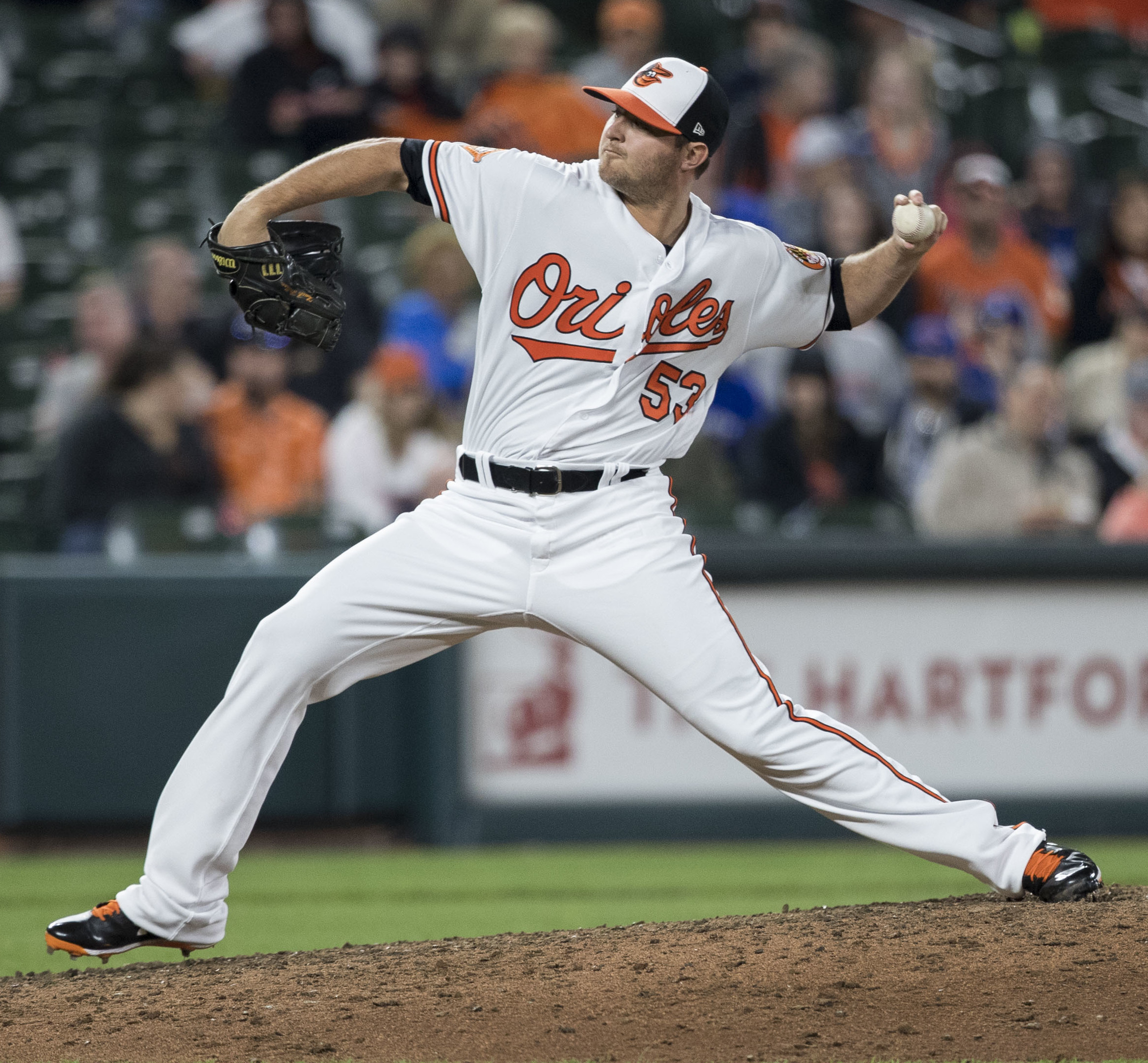 Zach Britton of the Baltimore Orioles pitches in a game against the Toronto Blue Jays at Oriole Park at Camden Yards on April 5, 2017 in Baltimore, Maryland.